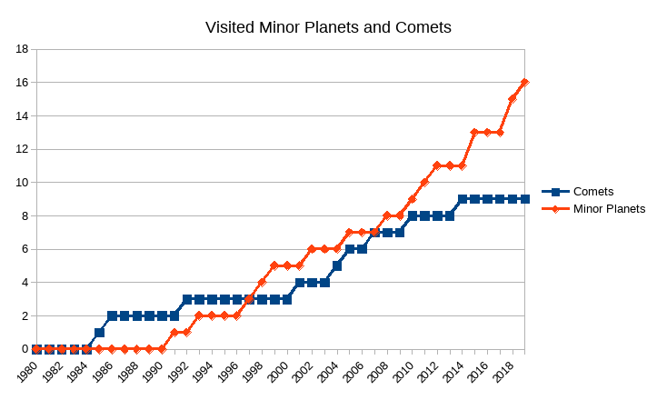 This plot shows the total number of Minor Planets and Comets visited by spacecraft and year. Some bodies have been visited multiple times. But each body is only counted once. This chart is based on the list on